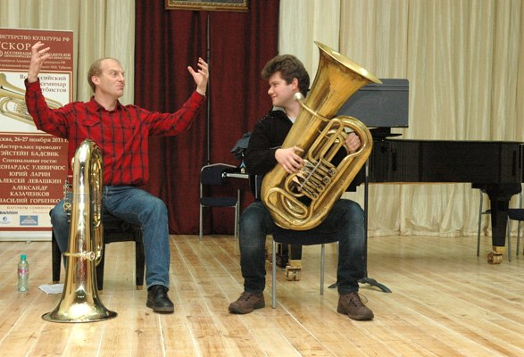 baadsvik